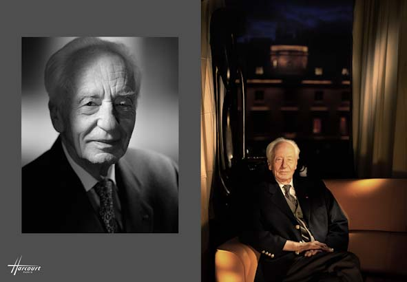 Jean Dausset photographed by Studio Harcourt Paris